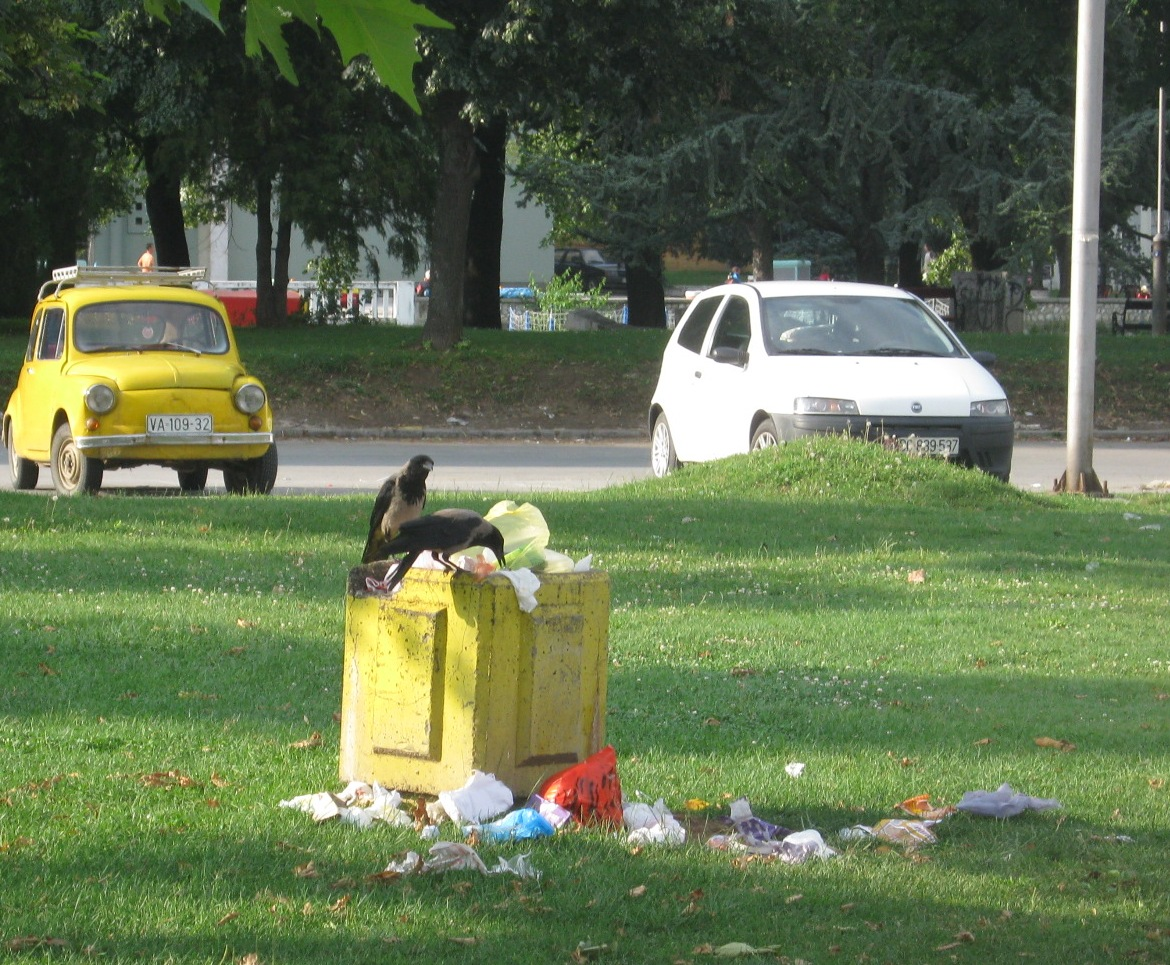 Crows feeding from garbage cans